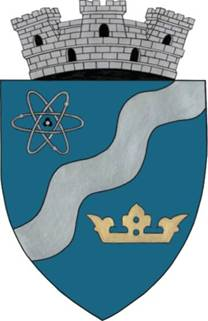 Coat of arms of the town of Măgurele, Ilfov County, Romania